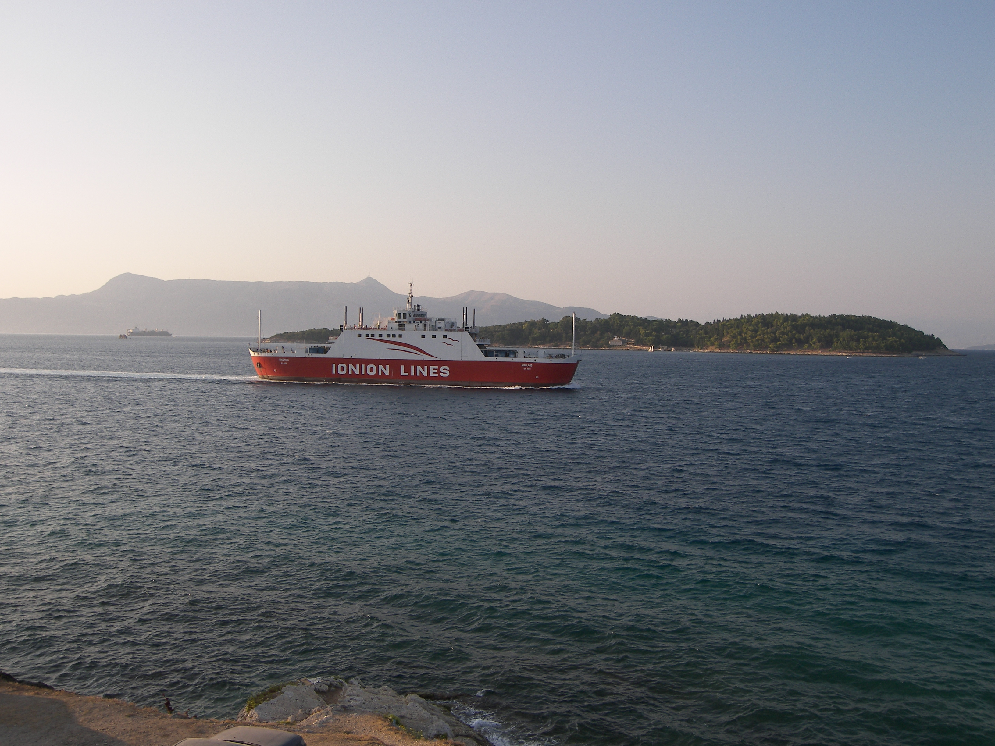 Please see filename